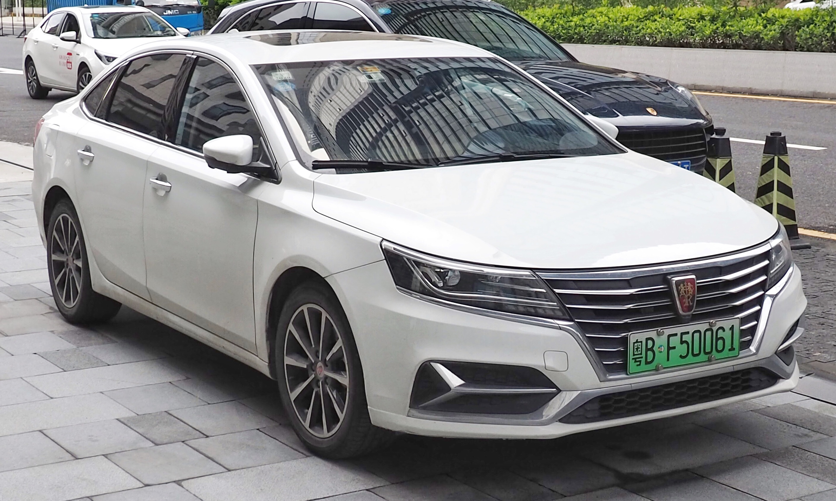 A 2017 Roewe ei6 taken in Shenzhen, Guangdong province, China. 中文（中国大陆）: 一辆2017年的荣威ei6，摄于中国广东省深圳市。